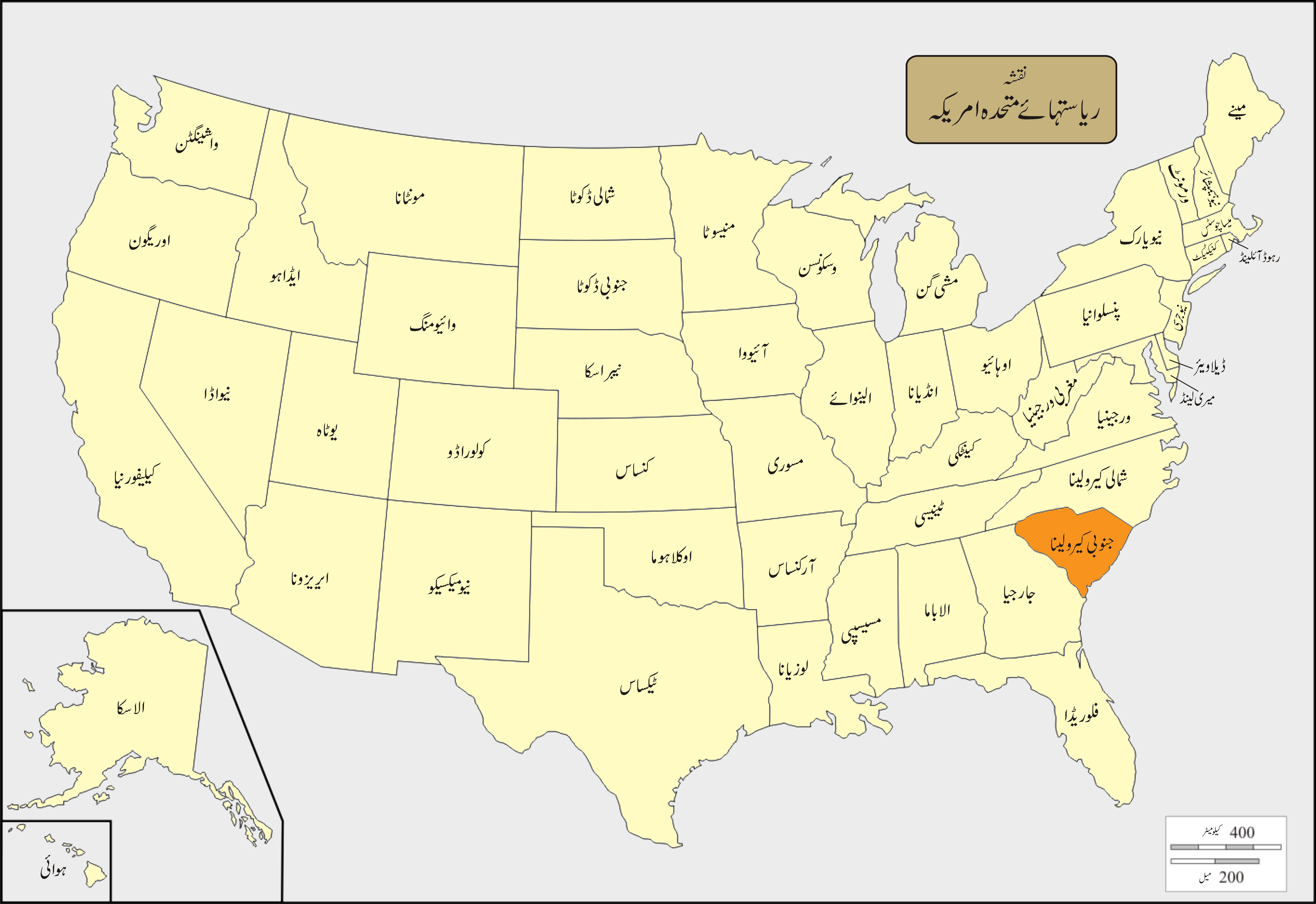 USA Names South Carolina